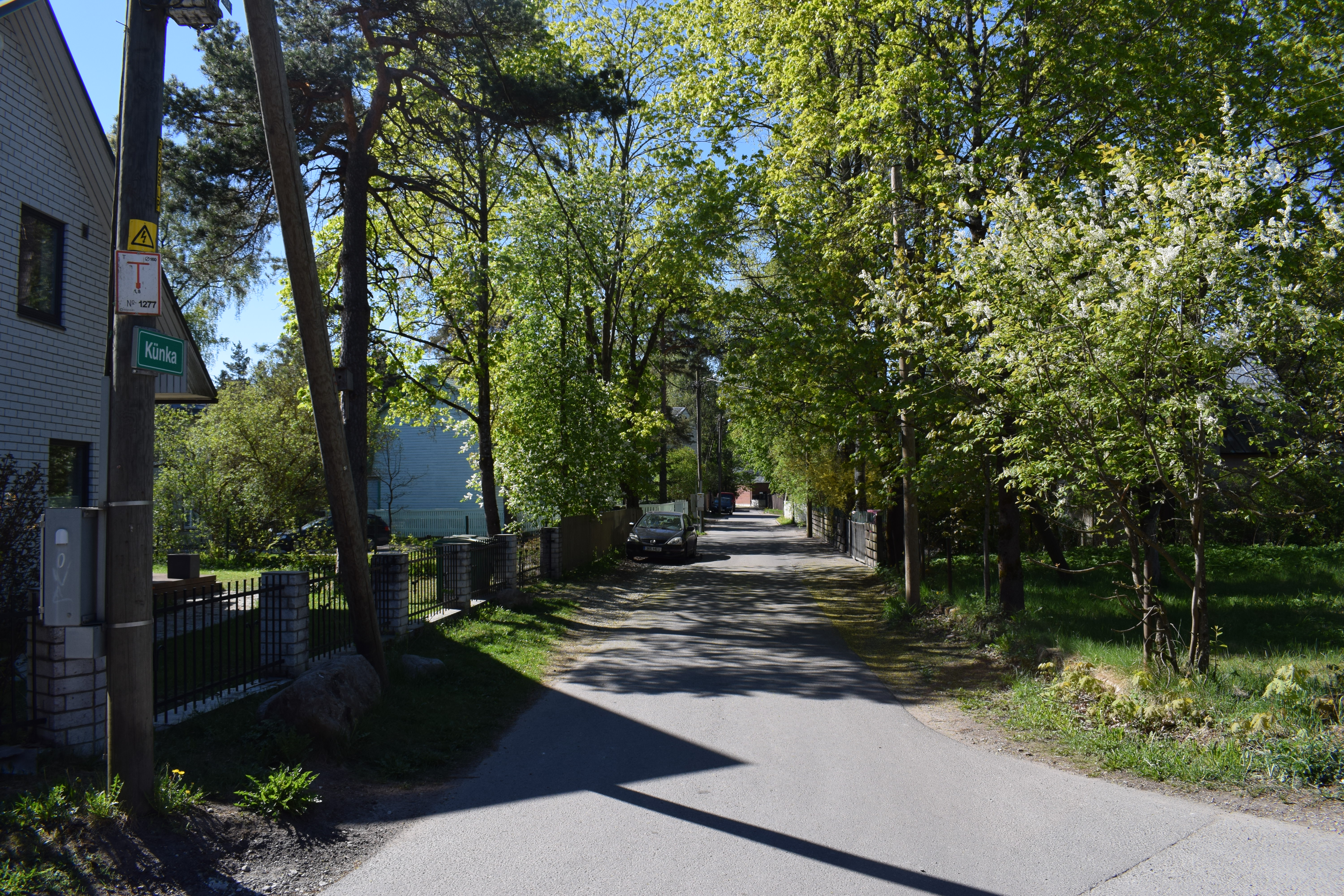 Künka street